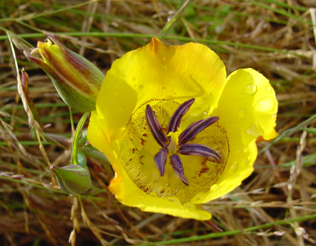 Description: Calochortus clavatus (Club-hair Mariposa lily) flower and bud, in Ventura County, CA Photo taken by: Noah Elhardt